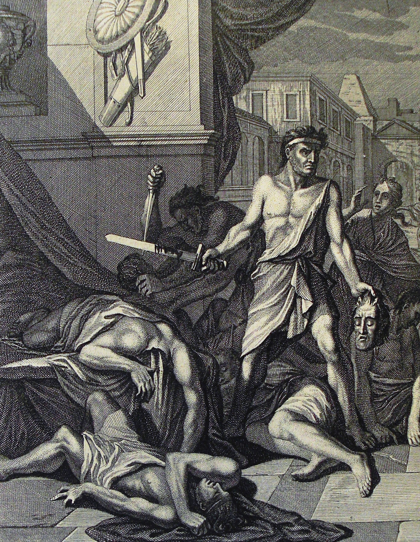 In the collection of Revd. Philip De Vere at St. George’s Court, Kidderminster, England.